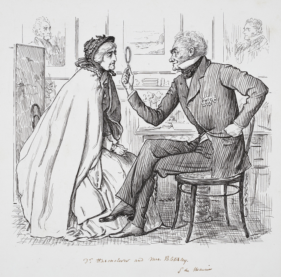 ‘Dr Hasenclever and Mrs Bletchley’; original artwork of a pen and ink illustration for du Maurier's novel 'The Martian', Part VII, ‘… a trip up the Rhine--and Mrs. Bletchley, the splendid old Jewess (Leah's grandmother), who suffered, or fancied she suffered, in her eyesight, took it into her head that she would like to see the famous Dr. Hasenclever in Riffrath, and elected to journey with them--at all events as far as Düsseldorf…’. Signed and inscribed. 8.25x7.75 inches. Offered for sale by Abbott and Holder in May 2019.